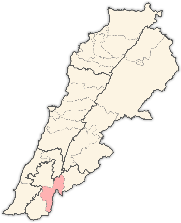 Map of districts in Lebanon, highlighting the Marjeyoun District